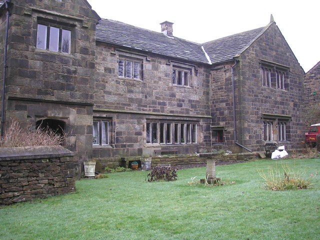 Jackson's House in the centre of Worsthorne, Lancashire